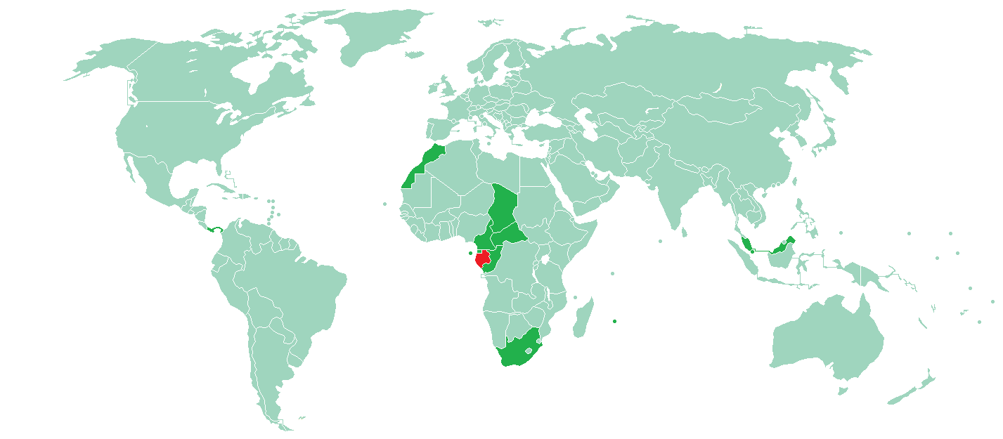 Visa policy of Gabon Gabon Visa free access Visa on arrival and eVisa eVisa